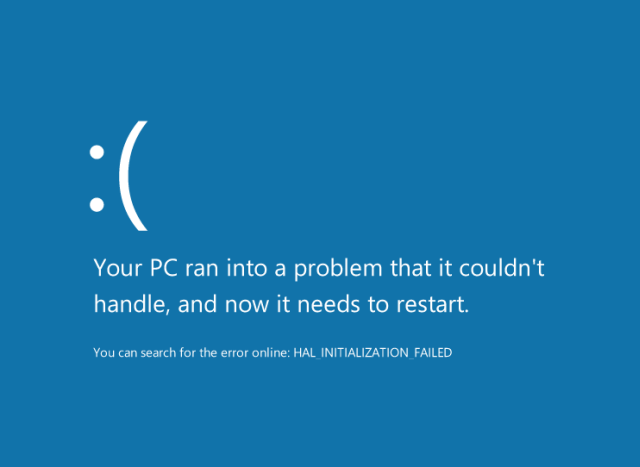 Blue Screen of Death on Windows 8